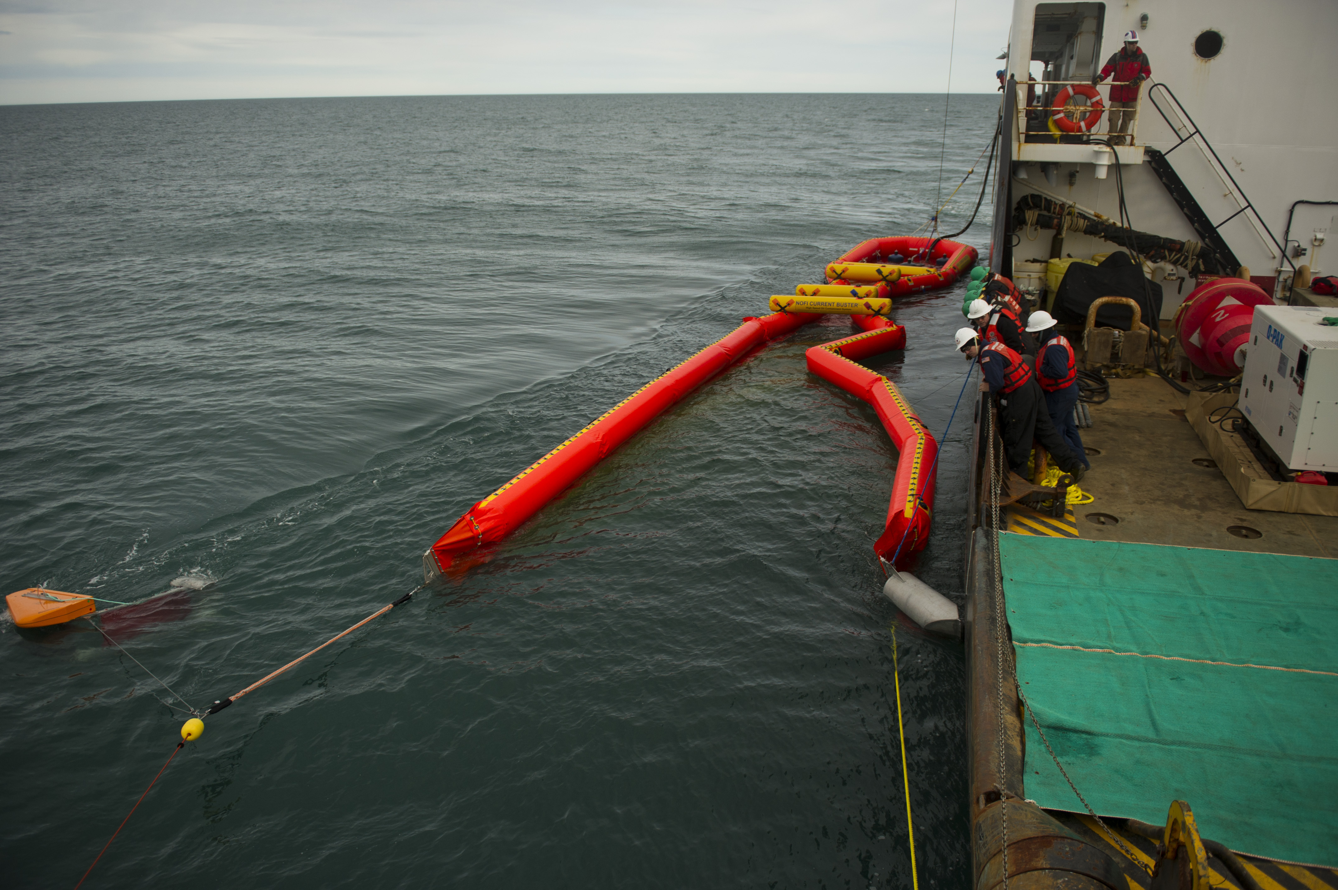 U.S. Coast Guardsmen aboard seagoing buoy tender USCGC Sycamore (WLB 209) deploy a spilled oil recovery system during Arctic Edge 2012 near Barrow, Alaska, Aug. 1, 2012. The SORS equipment is a vital asset to the Coast Guard's Marine Environmental Protection mission and includes booms to sweep oil into a skimmer. Arctic Edge is a U.S. Northern Command, U.S. Coast Guard, state, local and tribal exercise designed to test the SORS in the waters surrounding the Arctic regions of Alaska.